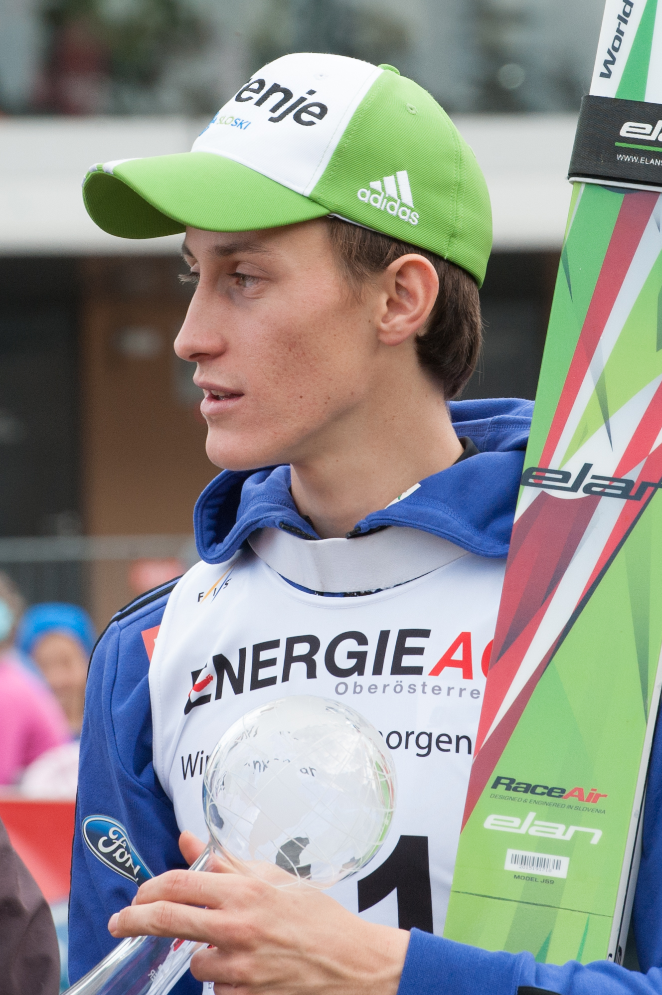 Fis Ski Jumping Summer Grand Prix in Hinzenbach, Upper Austria, 2015-09-27: Peter Prevc